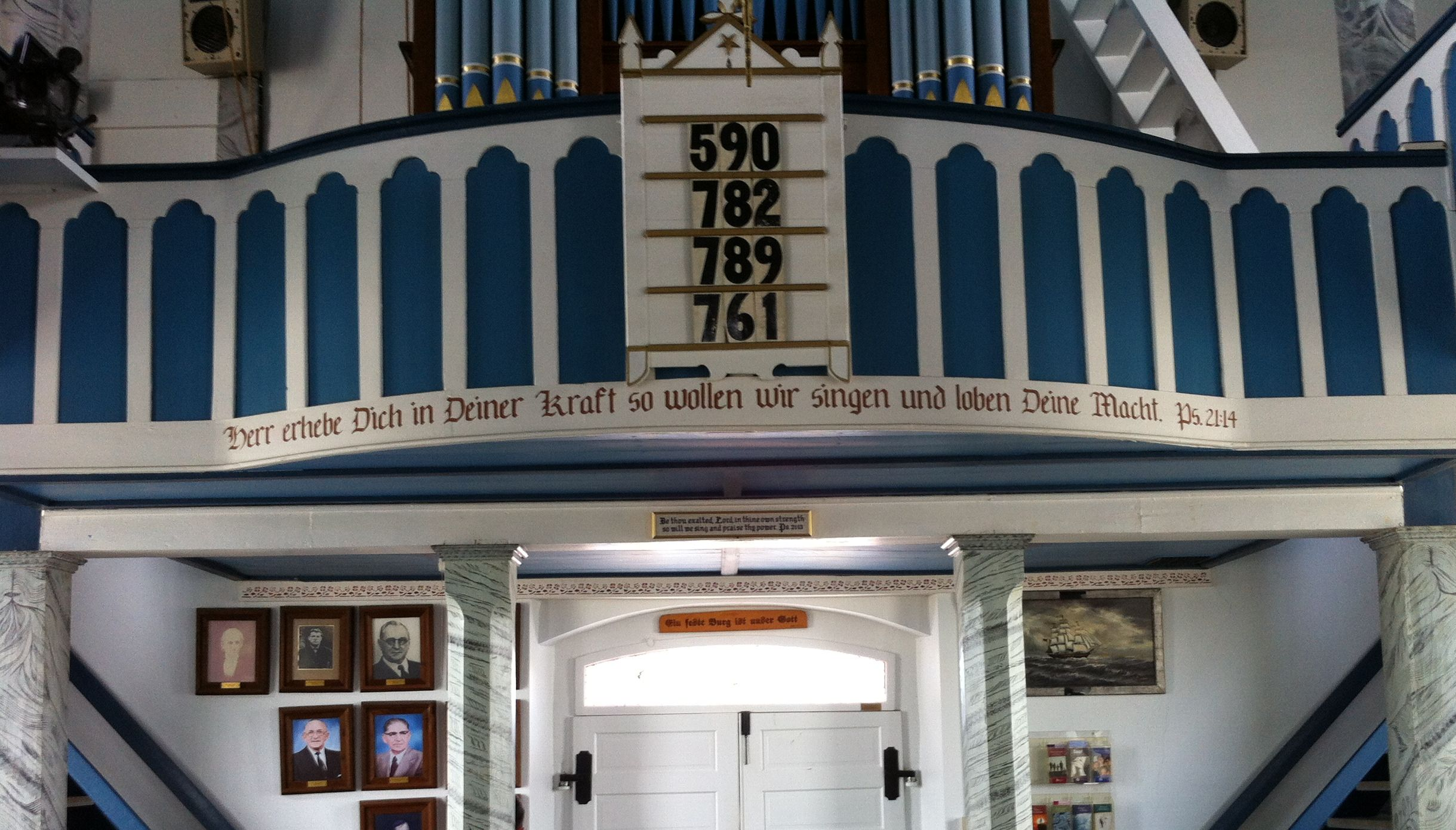 View of the interior of the Serbin church, facing the rear. The Bible verse is in German, not Wendish/Sorbian. Pipe organ in balcony, requires a person to stand on the left side of the organ and pump lever up and down. Picture to the right shows the ship Ben Nevis, the ship on which most of the Serbin settlers sailed on their way from Europe to Texas. On the left are pictures of the successive pastors who have served the congregation, the first being Jan Kilian and the second being his son.